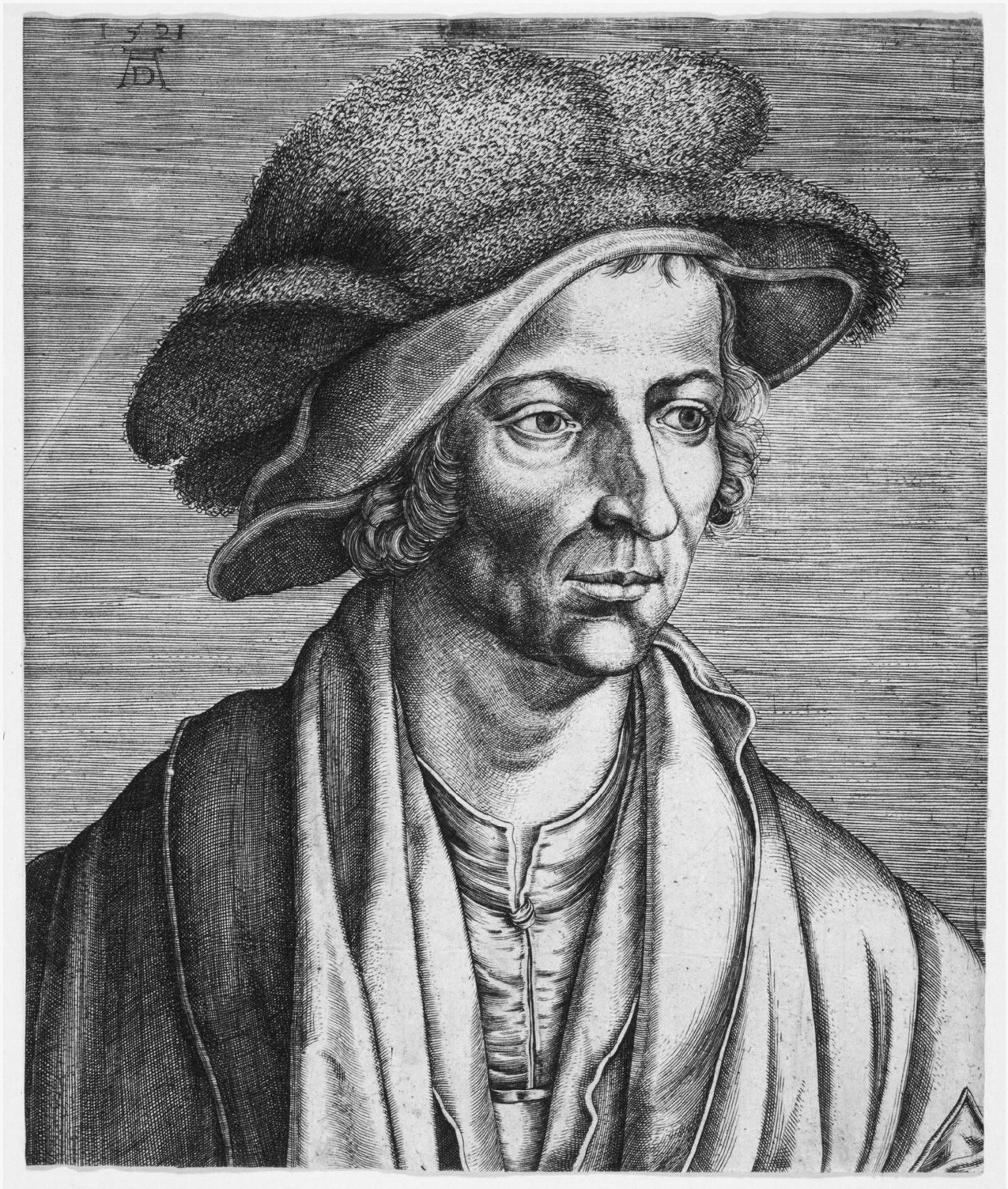 Portrait of Joachim Patinir